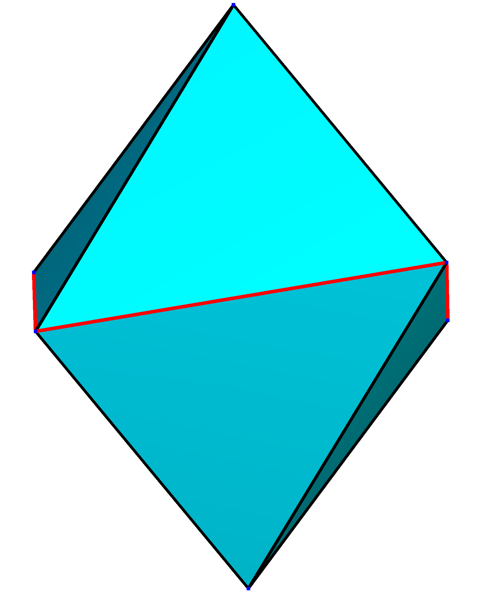 4-Scalenohedron, parameter 0.10